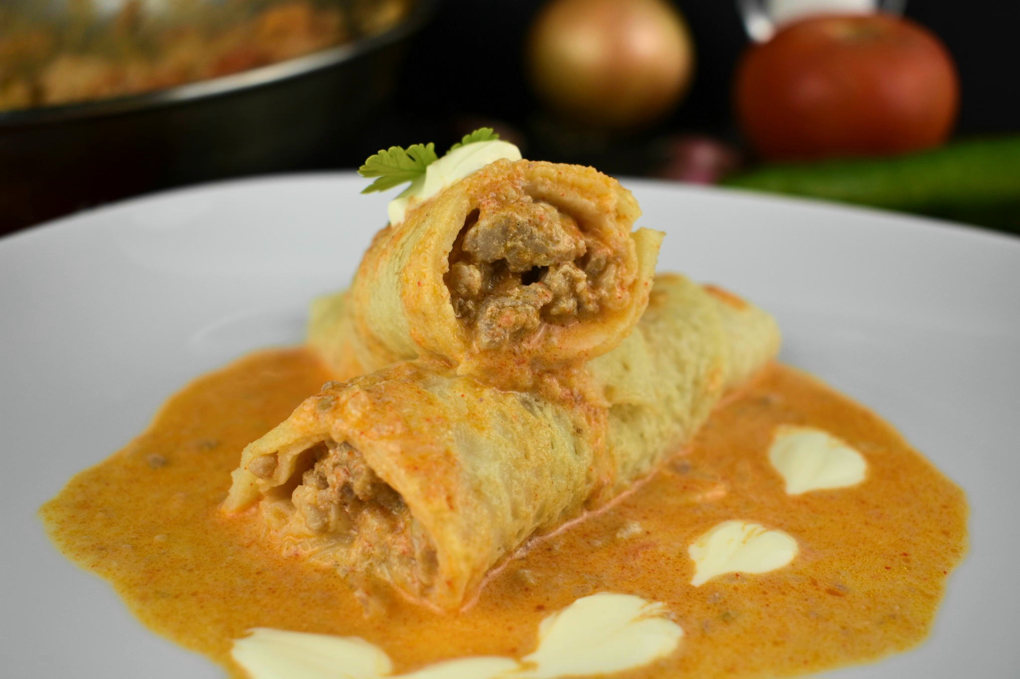 Hungarian-stuffed-crepes-hortobagy-crepes